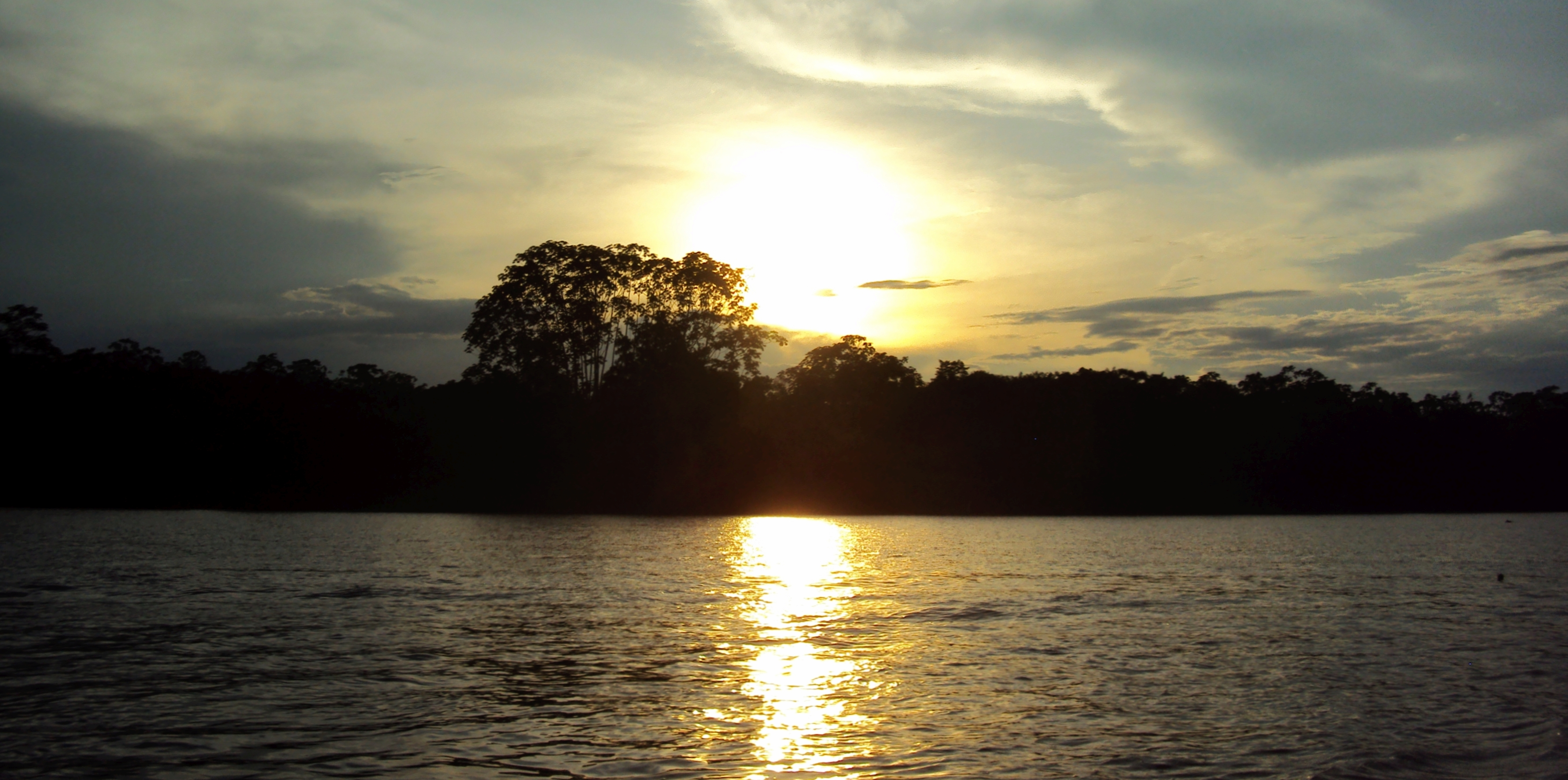 The setting sun reflected on the waters of the Amazon River